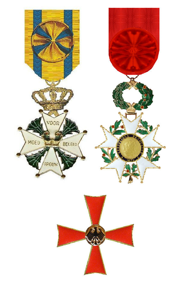 Officer Military Order of William Netherlands Officer Légion d'Honneur France Bundesverdienstkreuz Ier Klasse BRD